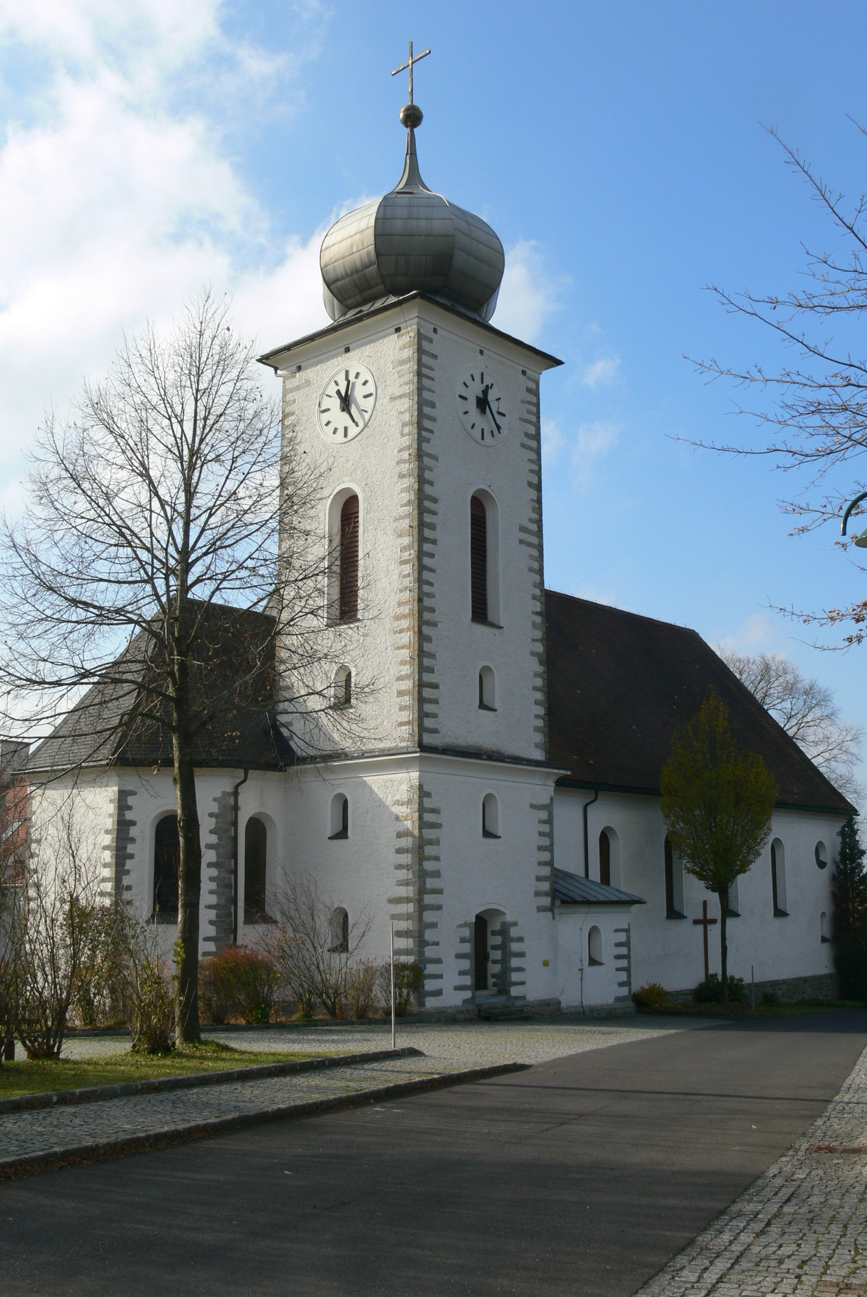 Klaffer am Hochficht ( Upper Austria ). Mary Assumption parish church ( 1955 ).